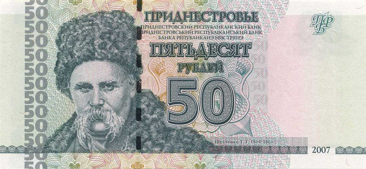 50 roubles de Transdniestrie, 2007